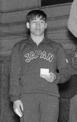 Freestyle Wrestling at the 1956 Summer Olympics 67 kg podium